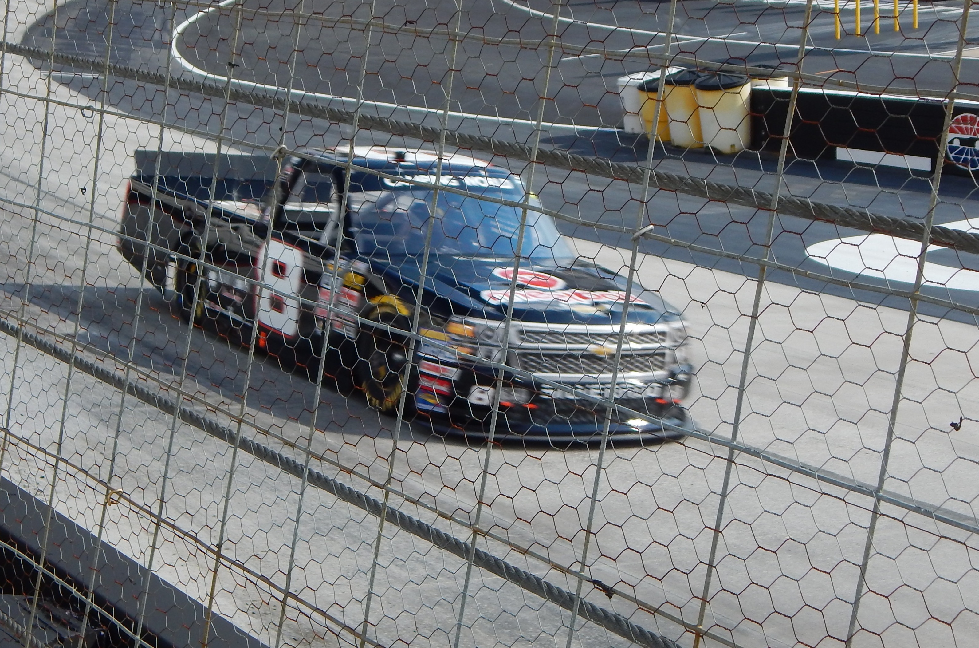 John Hunter Nemecheck qualified seventh for that night's UNOH 200 at Bristol Motor Speedway.